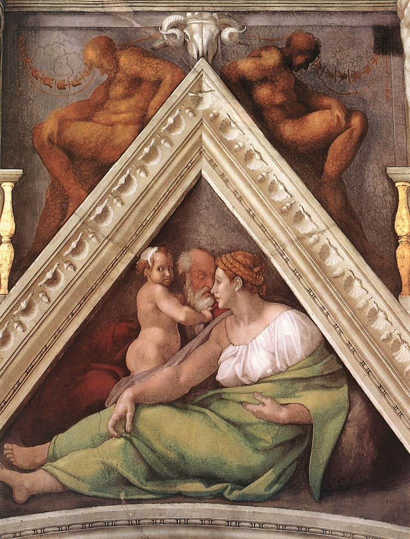 Sistine Chapel, painting in the triangular spandrel in the fourth bay over the Ezekiel (Hezekiah)-Manasseh-Amon lunette, and between the Cumaean Sibyl and Isaiah, part of the Ancestors of Christ series (fresco, 245 x 340 cm, restored).